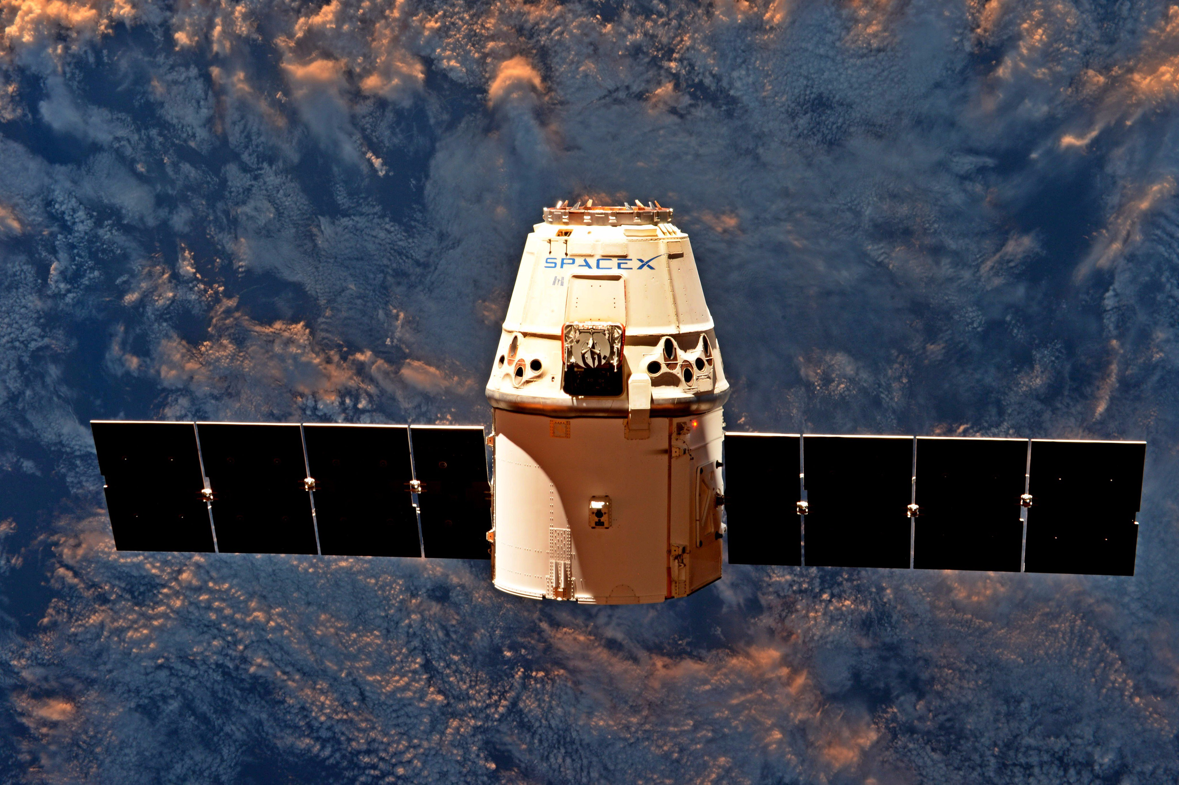 And there goes #Dragon… Goodbye to our 1st return visitor since Atlantis in 2011--Come on back anytime, we’ll leave the lights on for you!